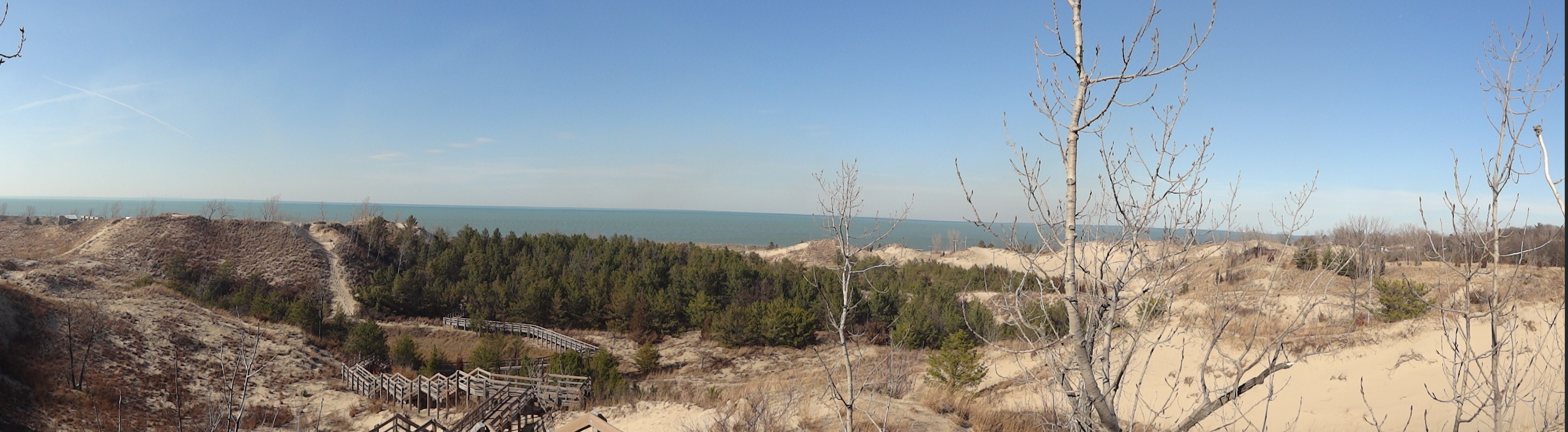 Lake Michigan as seen from Indiana Dunes National Lakeshore